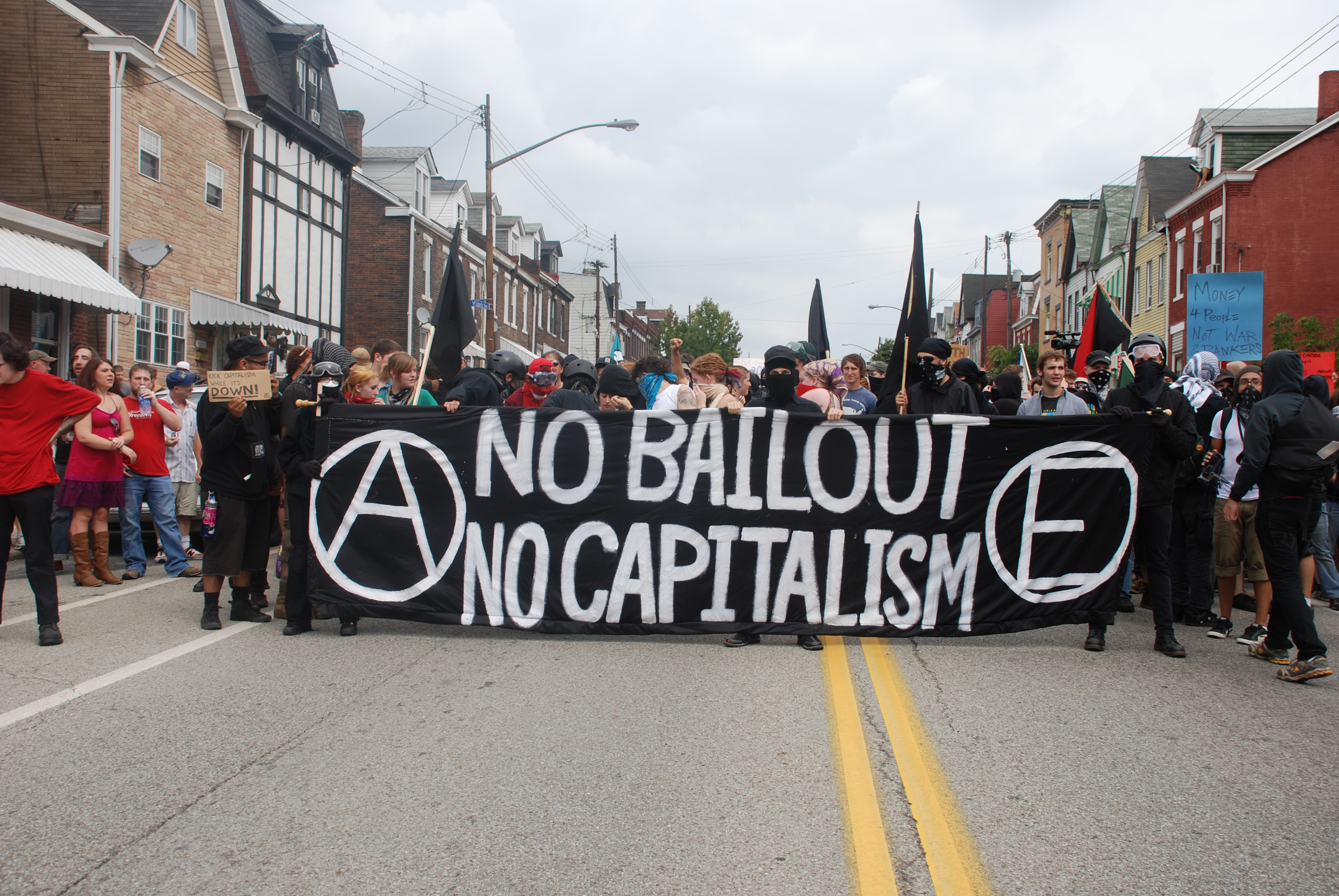 Protesters in the Lawrenceville neighborhood of Pittsburgh, Pennsylvania, USA on September 24, 2009 protesting the 2009 Pittsburgh G-20 Summit.